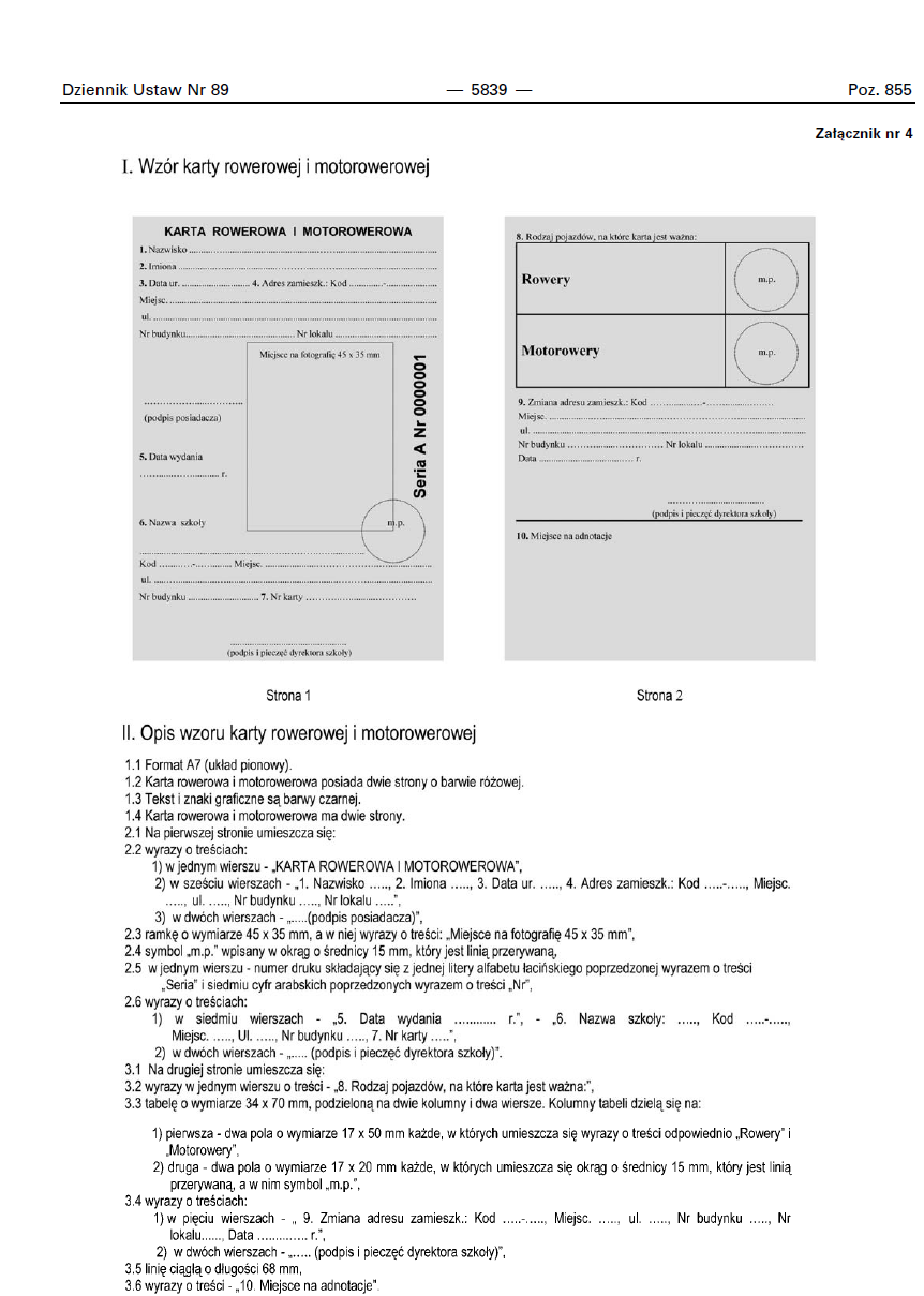 A specimen of a moped and a cycling card since 2004 to 2013 (a fragment from the Journal of Laws with the description)